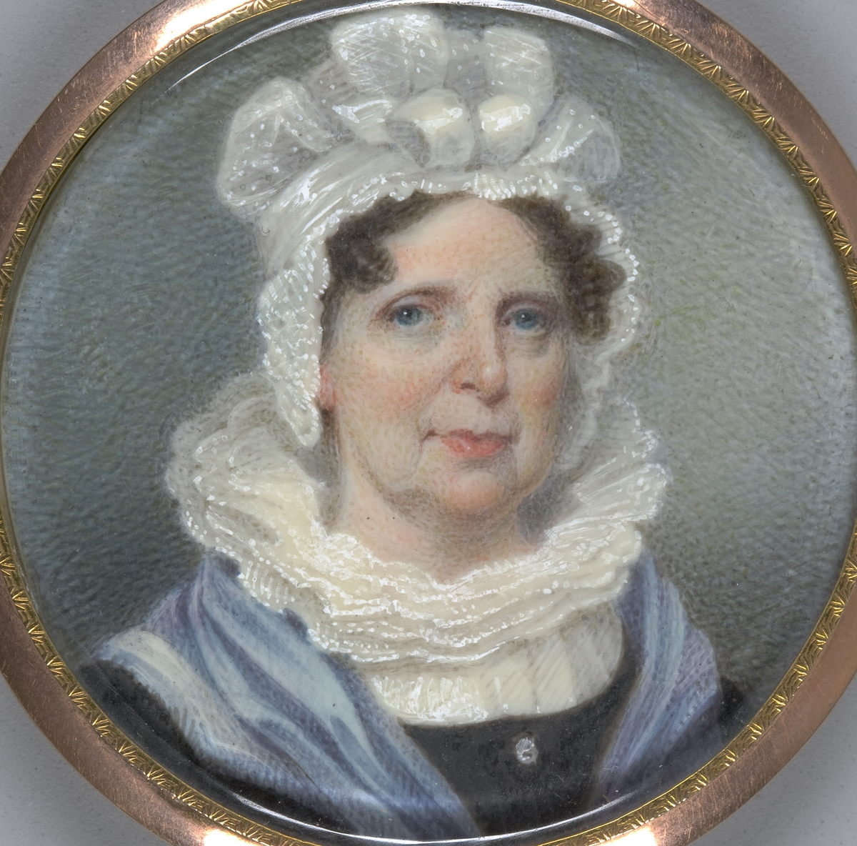 Mrs. Theodore Gourdin (Elizabeth Gaillard) (1766-1835); verso: Theodore Gourdin (1764-1826)